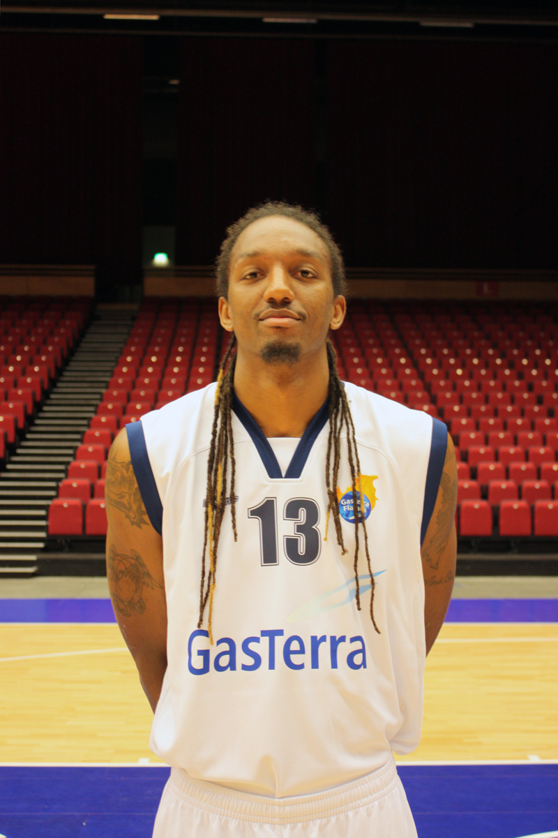 Avis Wyatt in the GasTerra Flames uniform for the 2011-2012 season